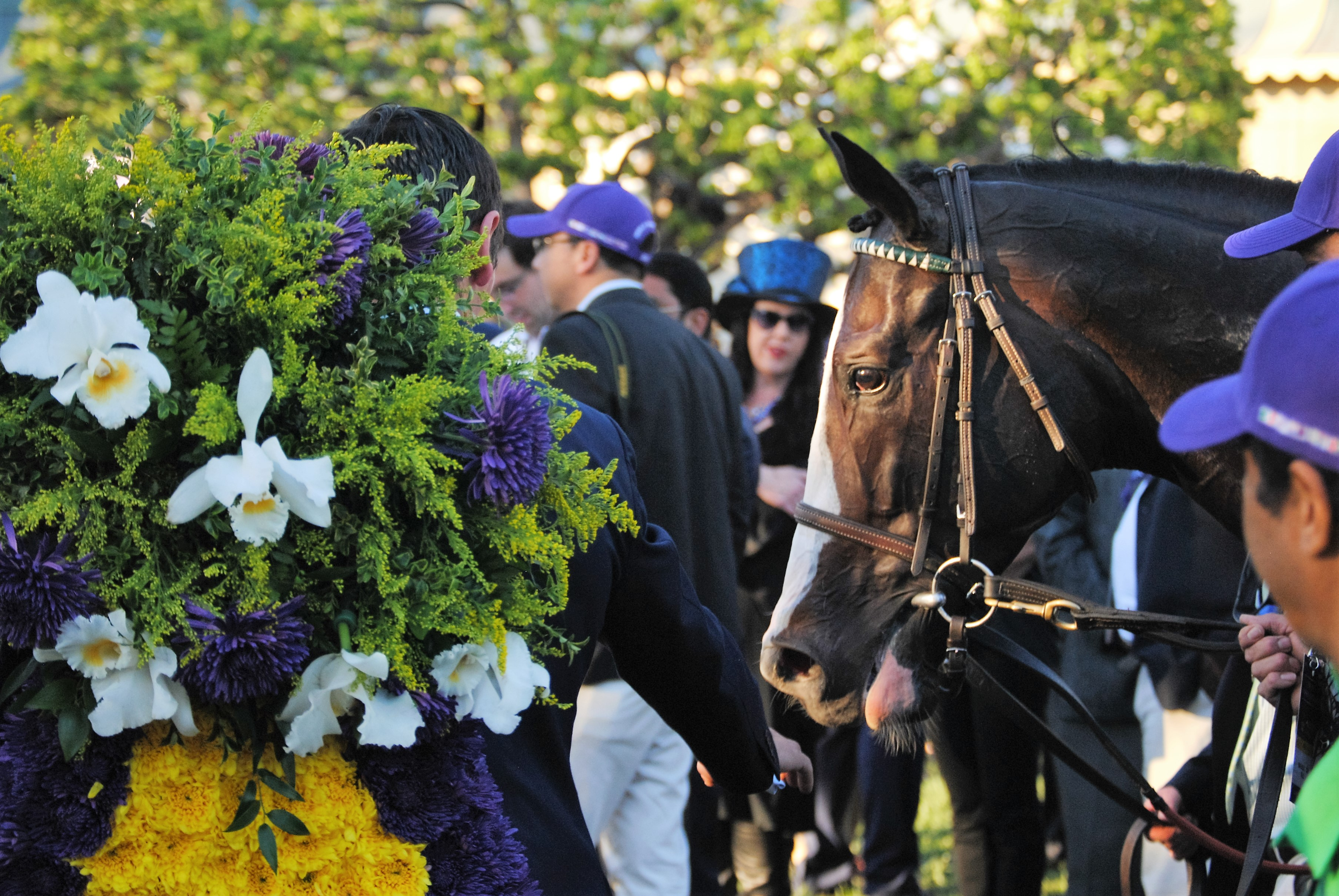 Tourist with the winner's bouquet from the 2016 Breeders' Cup Mile